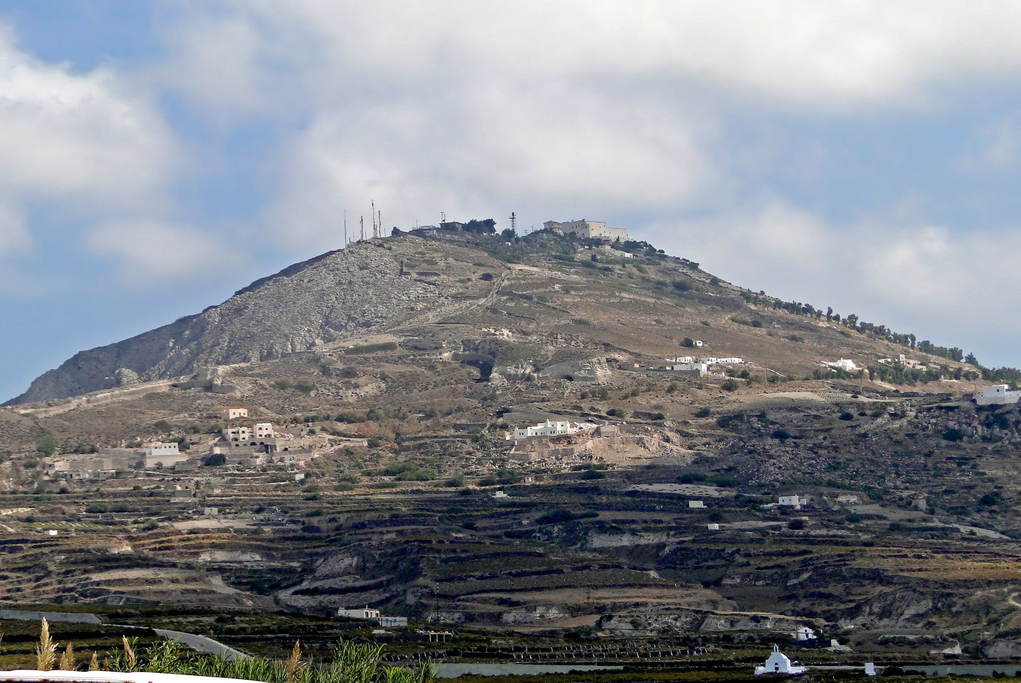 Mount Profitis Ilias, Santorini, Greece